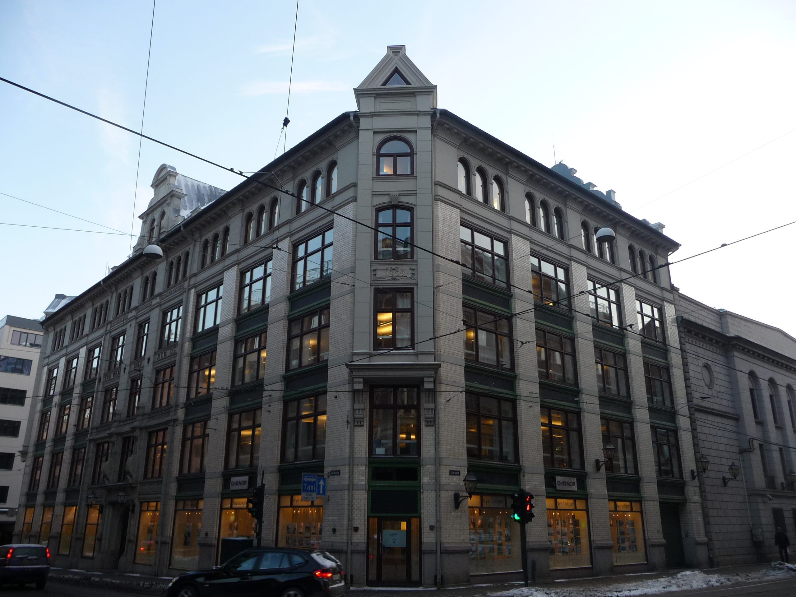 The building standing in Tollbodgaten 30, Oslo.